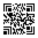 Example of the Chinese Sensible Code 2D barcode